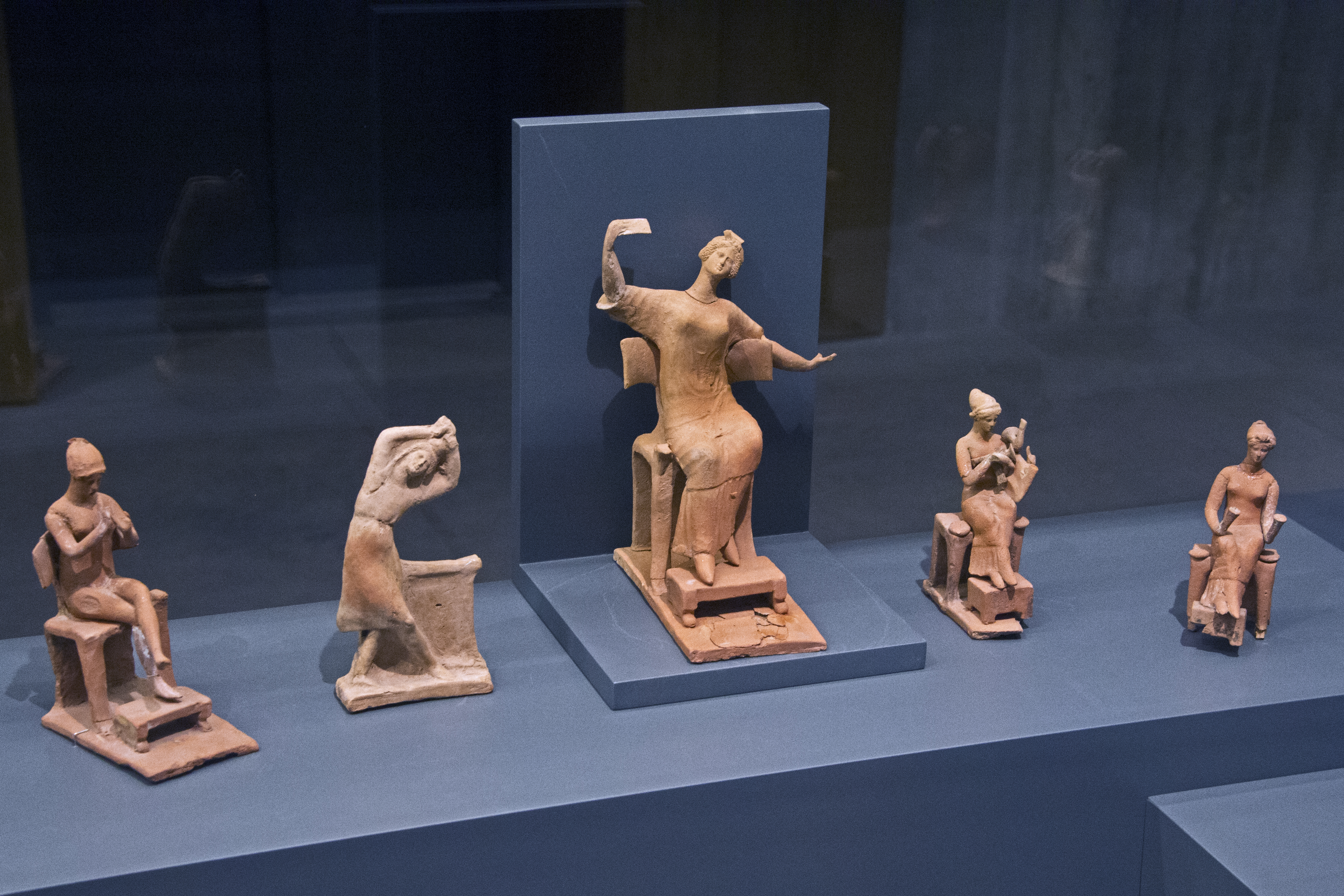 Though some pictures were taken in the (former) Çanakkale Archaeological Museum, all could now be taken in the Troy Museum as the objects have all been moved and put on a new display. From a website: "One of the most impressive collections in the museum is the one from Assos (Behramkale). Among the finds from the local necropolis, such as vessels and terracotta objects from the 5th and the 4th centuries BC, there are fascinating figurines of musicians. Most likely they were funeral gifts because they have been found in the sarcophagi. Perhaps there is a connection between them and the cult of the god Dionysus. The figurines show the musicians playing various instruments, including the lyre, the cithara, the drum, and the flute, as well as people dancing and singing."